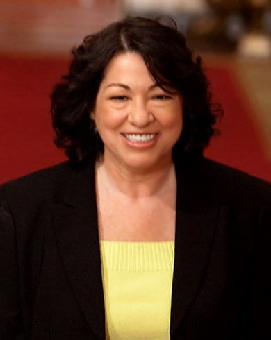 Judge Sonia Sotomayor in the East Room of the White House, May 26, 2009. (Official White House Photo by Chuck Kennedy)